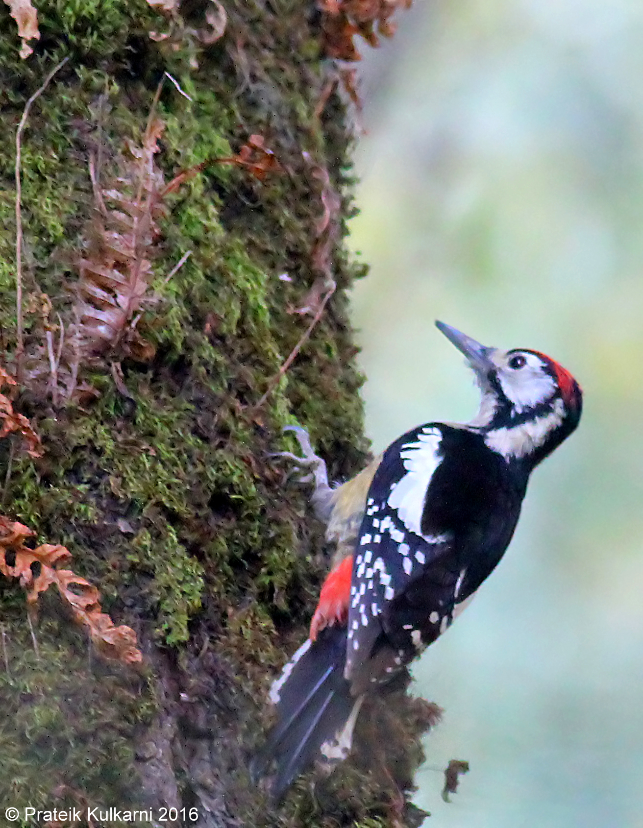 I loved this bird and the frame just because of the colours.